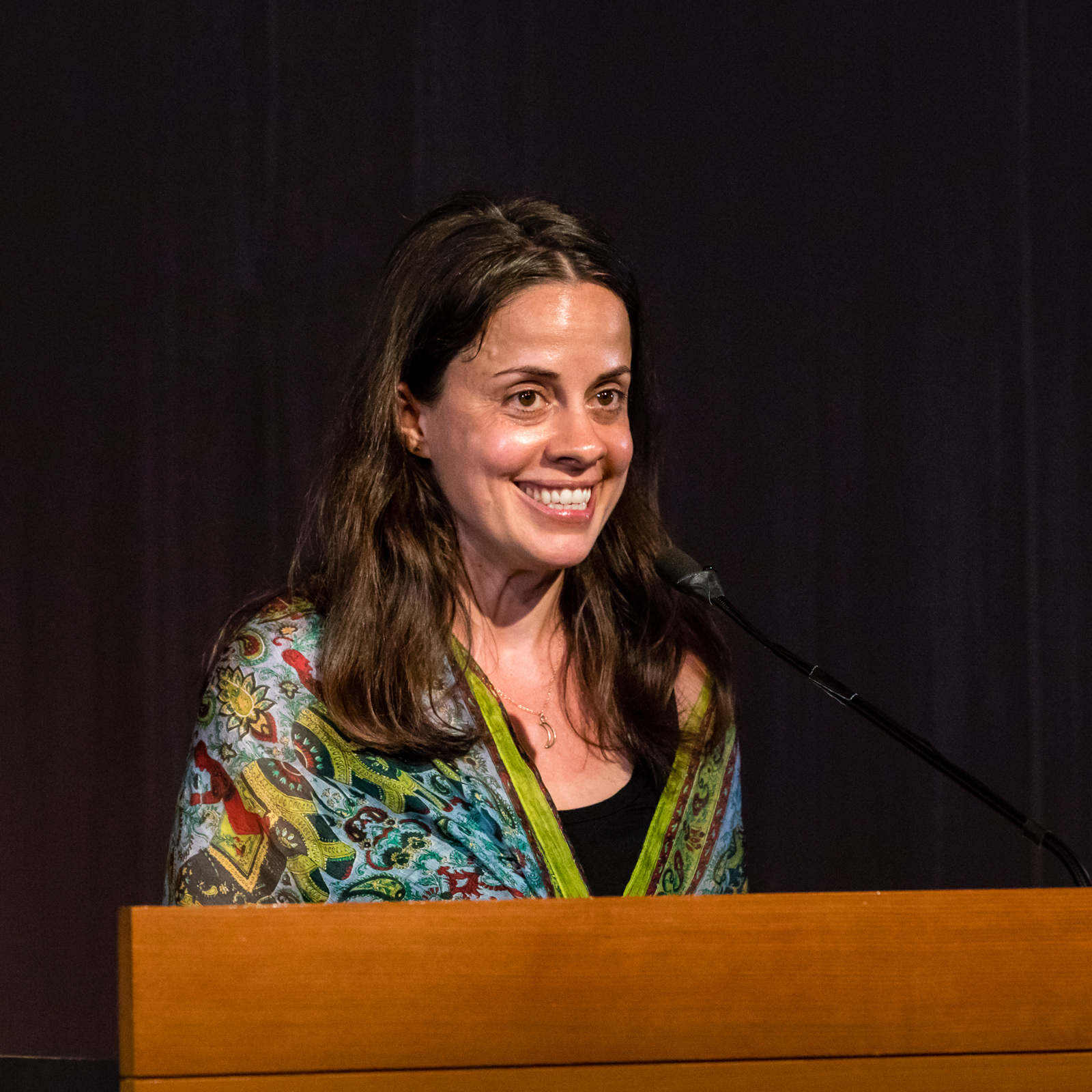 Bonnie Nadzam (MFA 2004). Nadzam is author of Lions (Grove Atlantic, 2016) and Lamb (Other Press, 2011), and co-author of Love in the Anthropocene (OR Books 2015) with Dale Jamieson. She is at work on her third novel. The Creative Writing Program in the Department of English at ASU presents a reading and book-signing by two of its stellar fiction alumni: Katie Cortese (MFA 2006) and Bonnie Nadzam (MFA 2004). Cortese is author of Make Way for Her and Other Stories (University Press of Kentucky, 2018) and Girl Power and Other Short-Short Stories (ELJ Publications, 2015). She teaches in the creative writing program at Texas Tech University where she serves as the fiction editor for Iron Horse Literary Review. Nadzam is author of Lions (Grove Atlantic, 2016) and Lamb (Other Press, 2011), and co-author of Love in the Anthropocene (OR Books 2015) with Dale Jamieson. She is at work on her third novel.